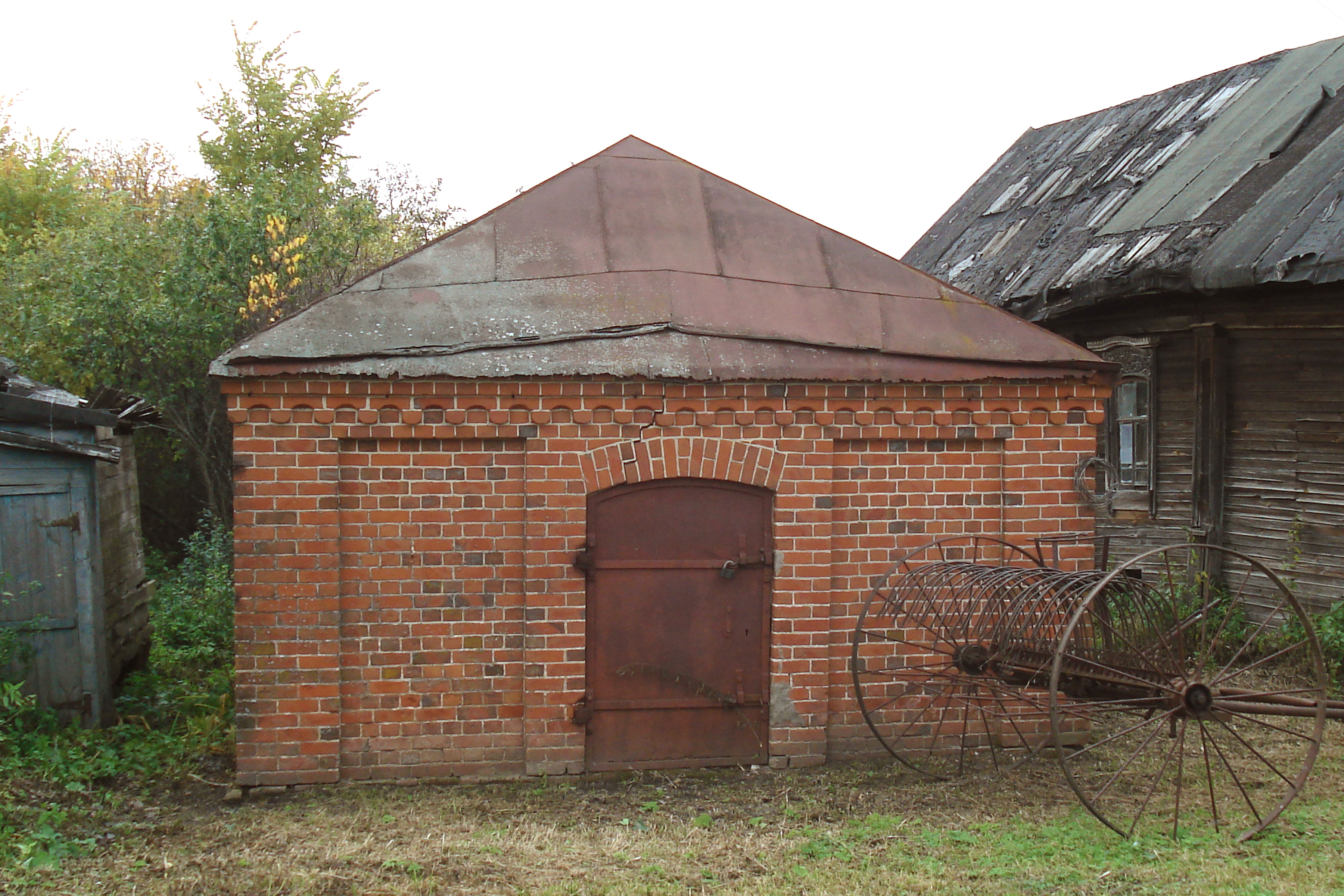 «Palatka» in the village of Pozhoga. Nizhegorodskaya oblast. Russia.